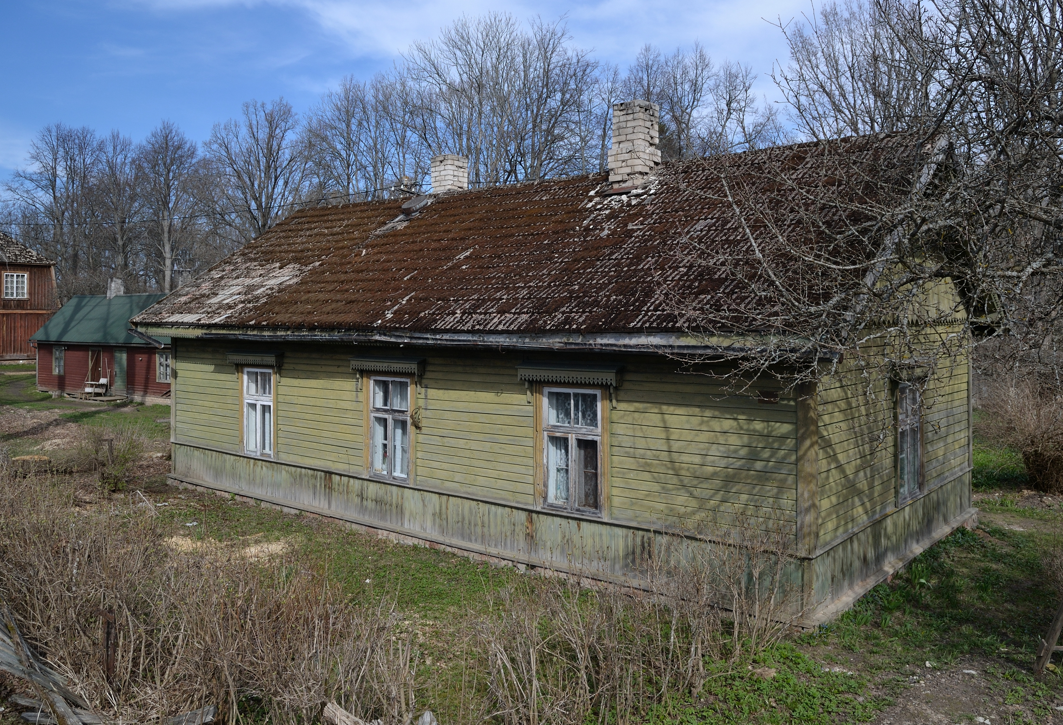 Olustvere station house